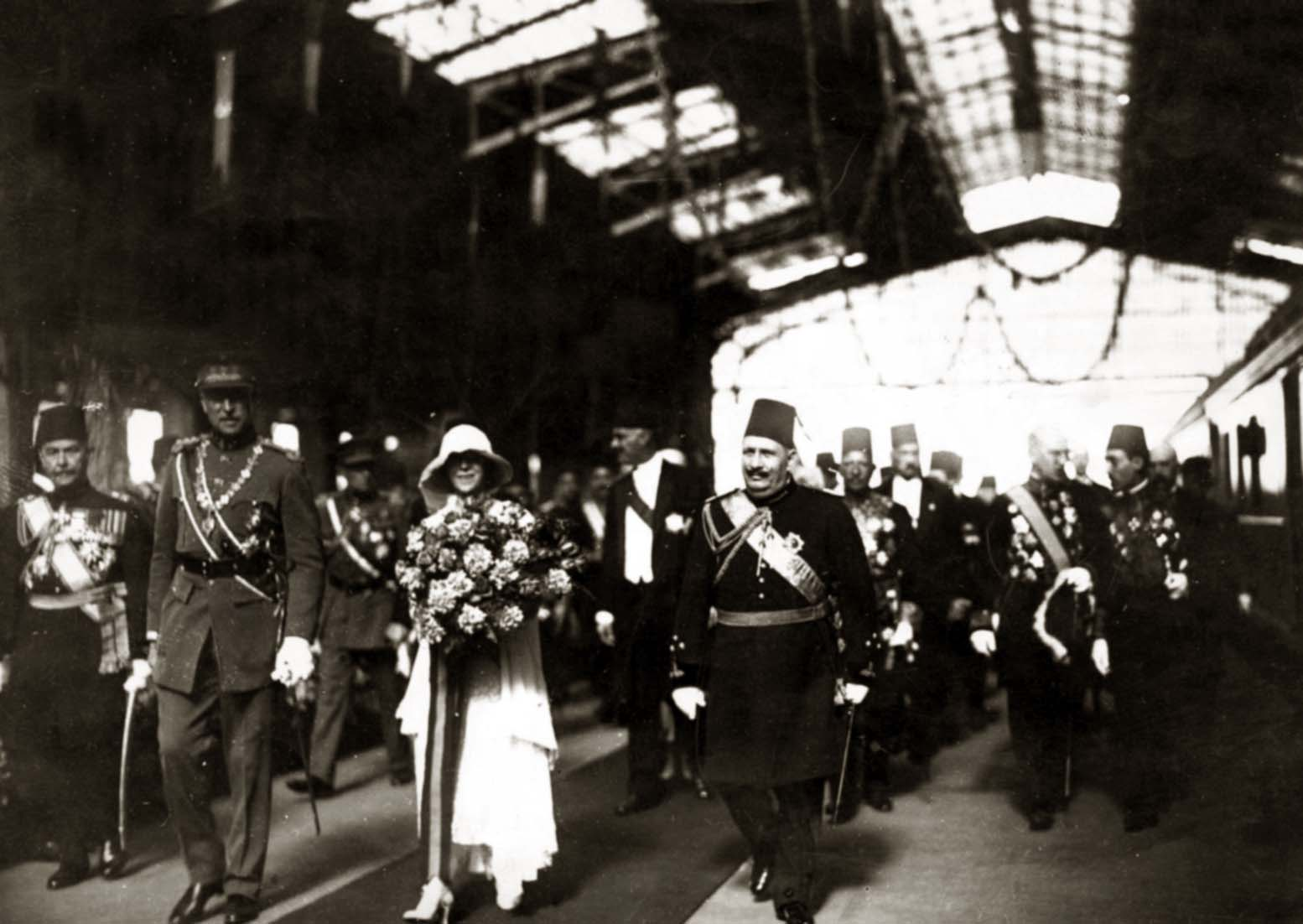 King Fouad I of Egypt (center) at the Mahattet Masr Railway Station (currently the Ramses Station) with King Albert I and Queen Elisabeth of Belgium during their visit to Egypt. The King of the Belgians is seen in military uniform and wearing a chain over his chest, while the Queen is carrying a flower bouquet.